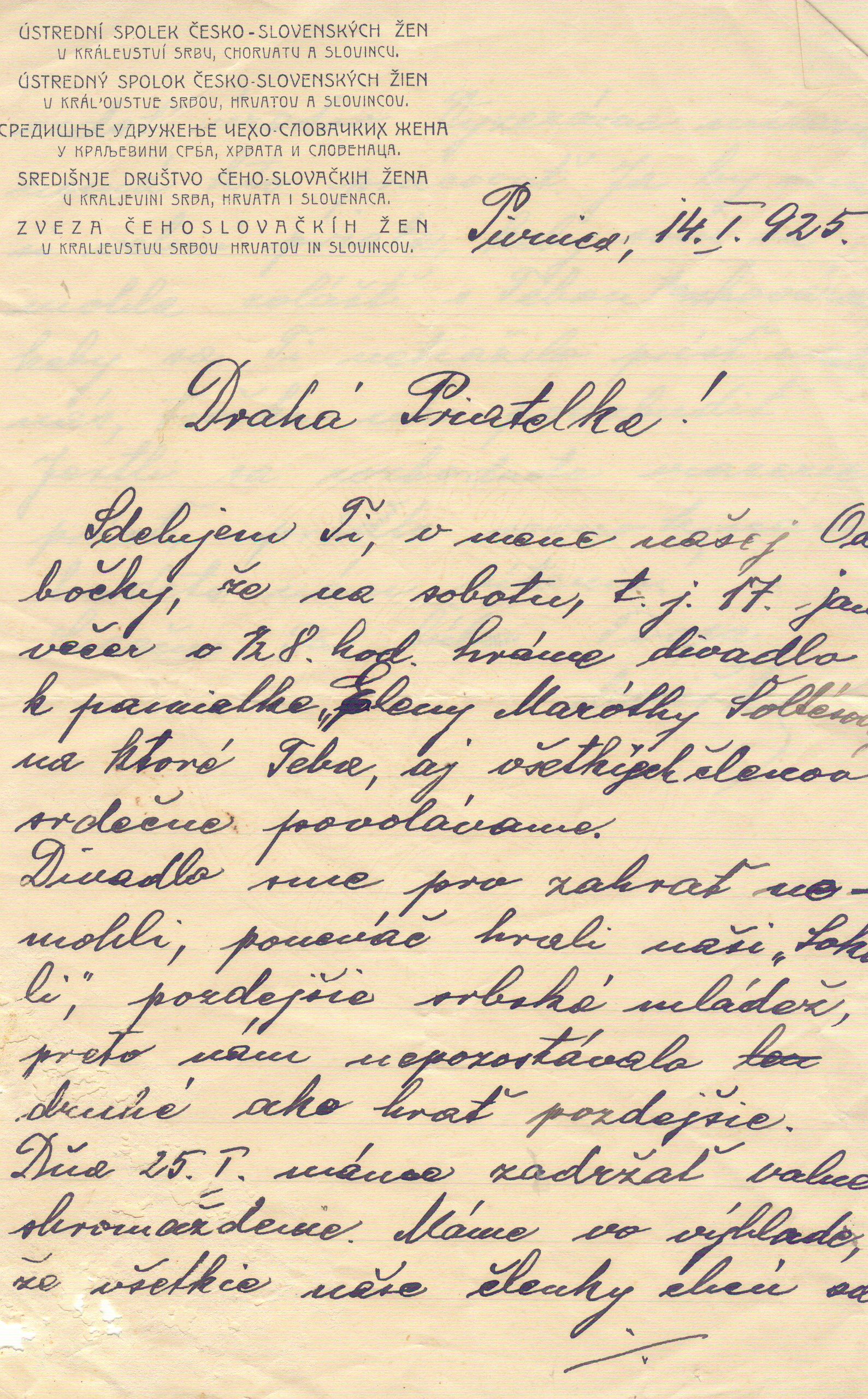 A letter of Eržika Mičátková, president of Central Association of Czechoslovak Women in the Kingdom of Serbs, Croats and Slovenes, inventory number 2060. Srpski (latinica): Pismo Eržike Mičatek, predsednice Centralnog saveza čehoslovačkih žena u Kraljevini SHS, inventarski broj 2060.